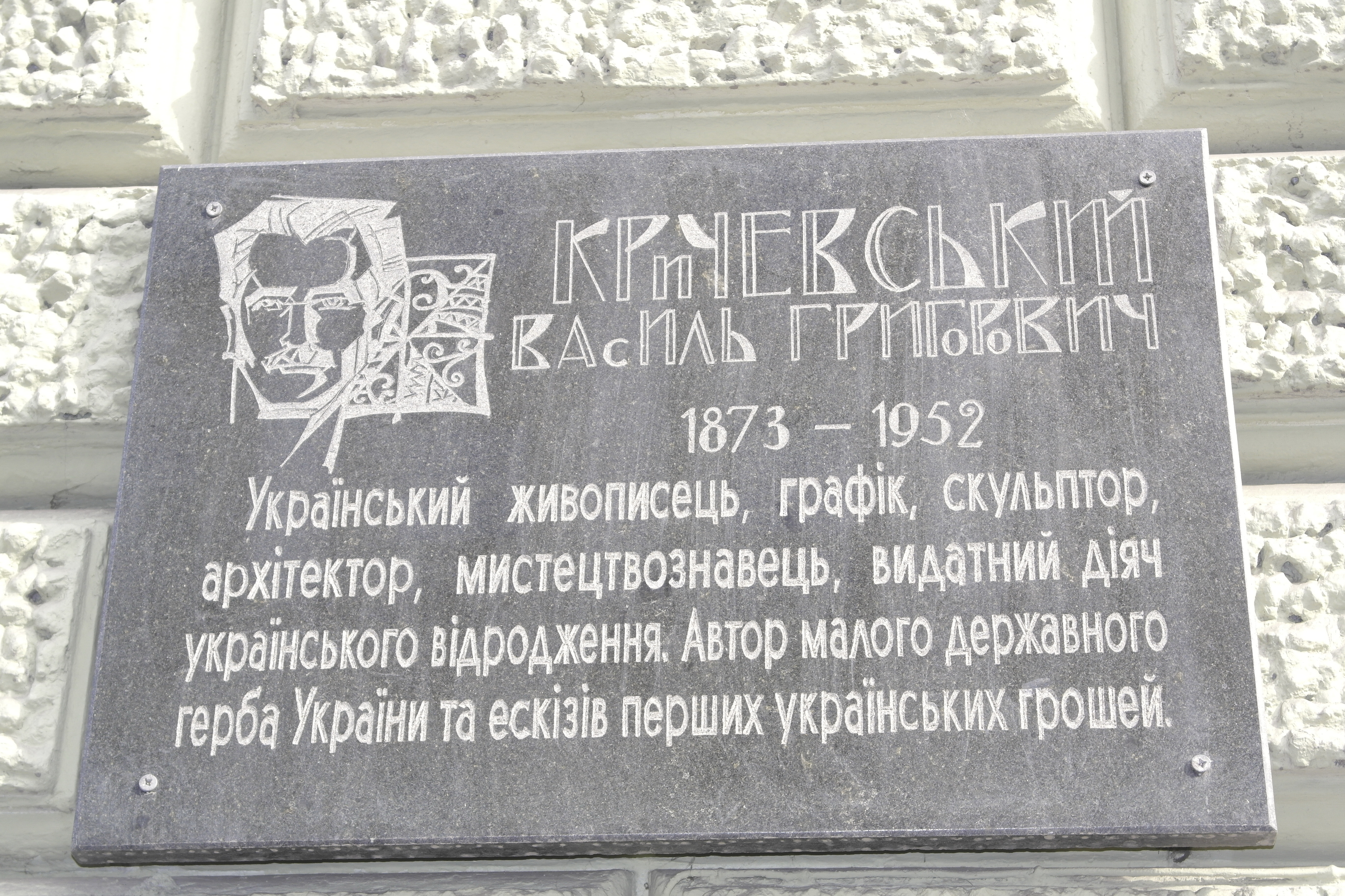 Memorial plaque for Vasyl Krychevsky in Sumska street in Kharkiv